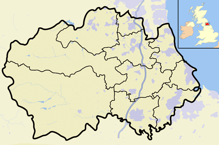 Map of County Durham, England, United Kingdom, showing the 1974-2009 district boundaries.